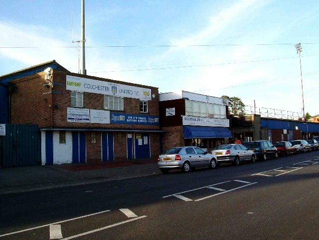 Colchester United's Layer Rd Ground. Layer Road has been the venue for Colchester’s footie team since the 1909-10 season. Colchester Town F.C was wound up and Colchester United founded in 1937. The U’s finest hour came in the 5th round of the 1971 F.A Cup when the 4th Division Side beat the 1st Division (equivalent of premier league now) League Champions Leeds United 3-2. Not being much of a soccer fan I was in TM0024 at the time and could hear the roar each time a goal went in! The Layer Rd stadium is due to be replaced for the 2007-8 season with a brand new stadium at 132822to the north of the town.